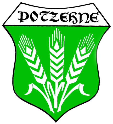 Coat of arms of Potzehne